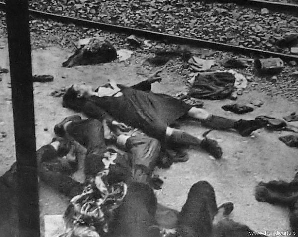 Victims of Balvano train disaster (1944)